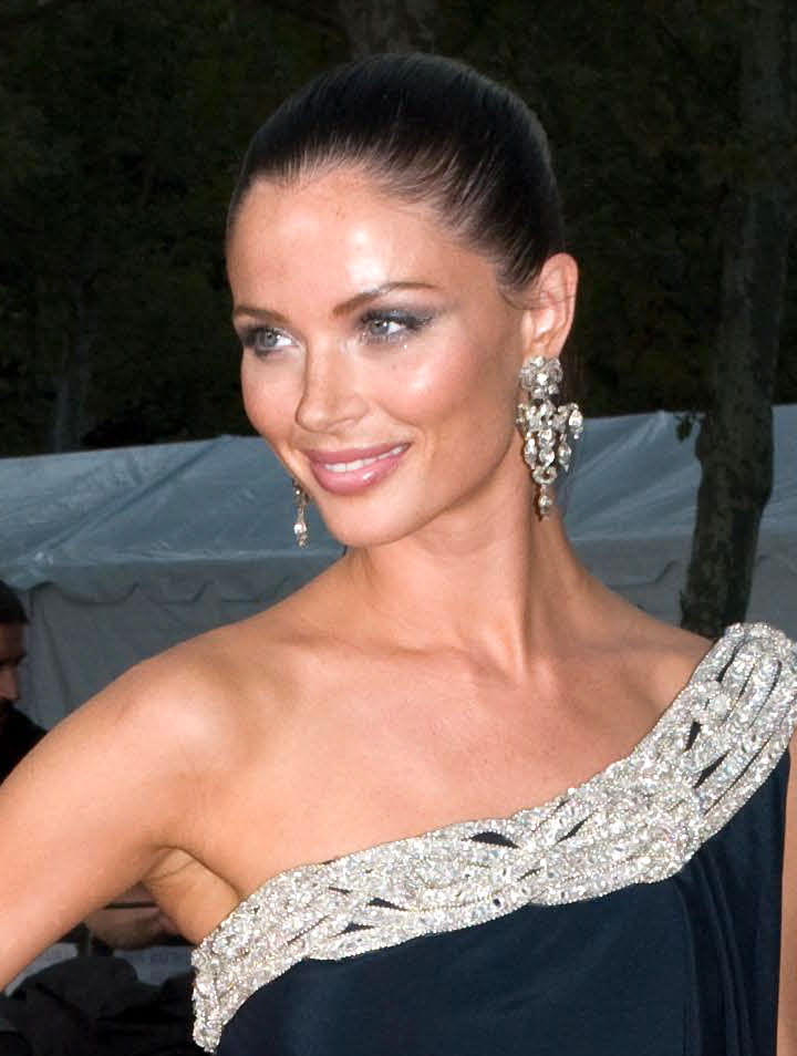 Georgina Chapman at the Metropolitan Opera opening in 2008. © Rubenstein, photographer Martyna Borkowski